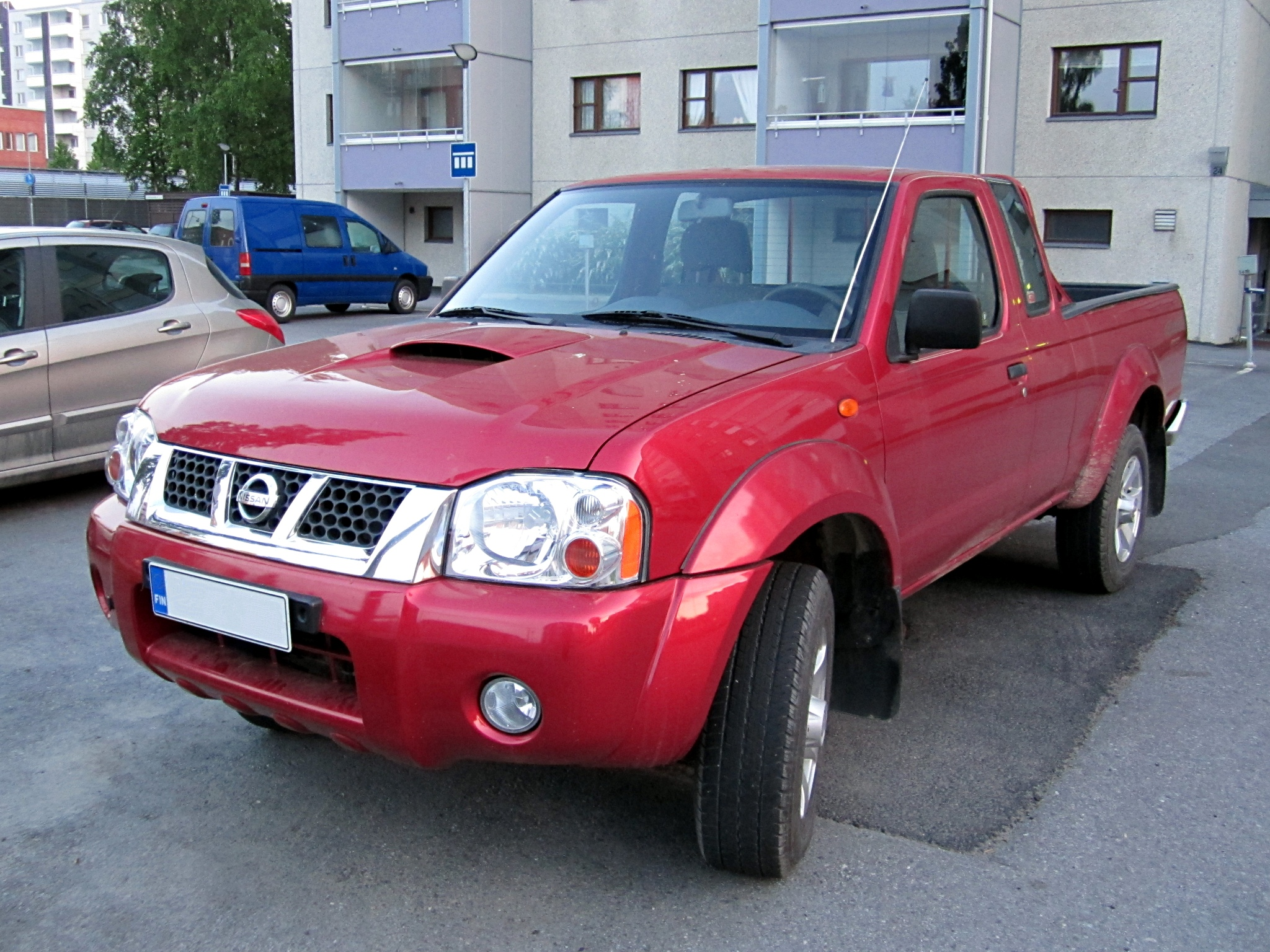 Nissan Frontier 2.5Di pick-up truck.